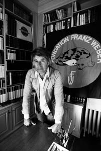 Franz Weber